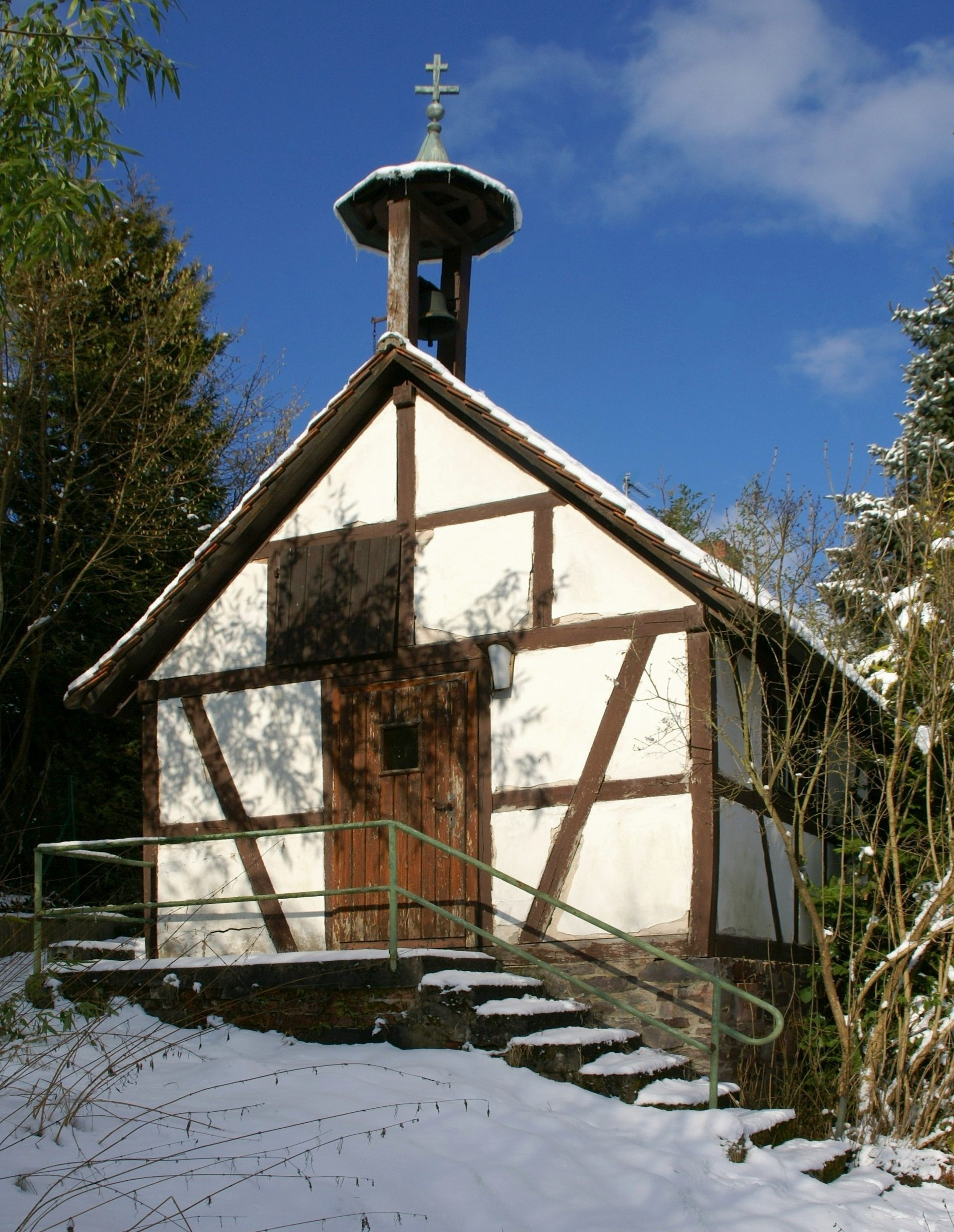 Chapel in Kleinhemsbach